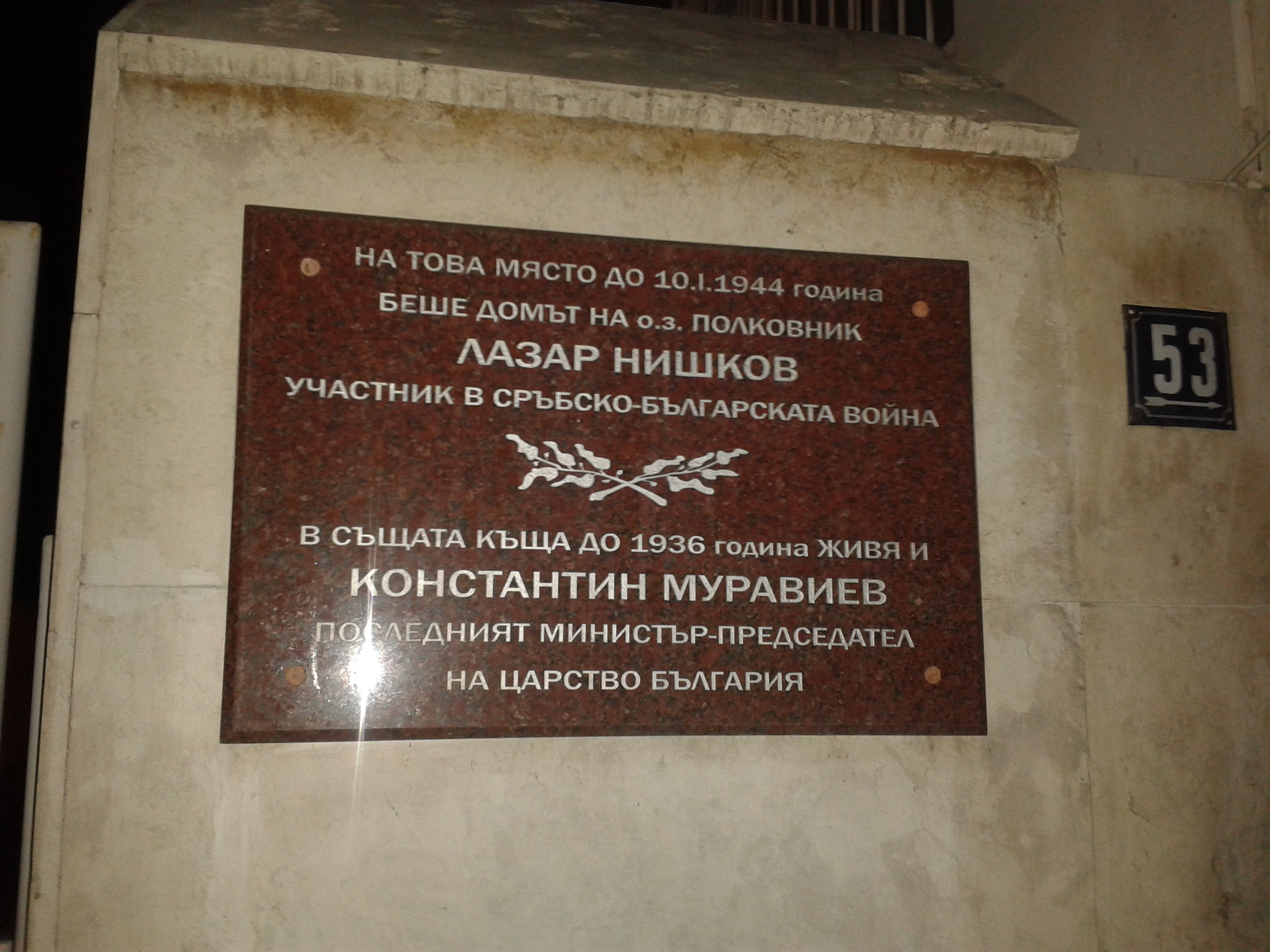 Memorial place of Lazar Nishkov and Konstantin Muraviev's House in Sofia, 53 Han Asparuh Str.